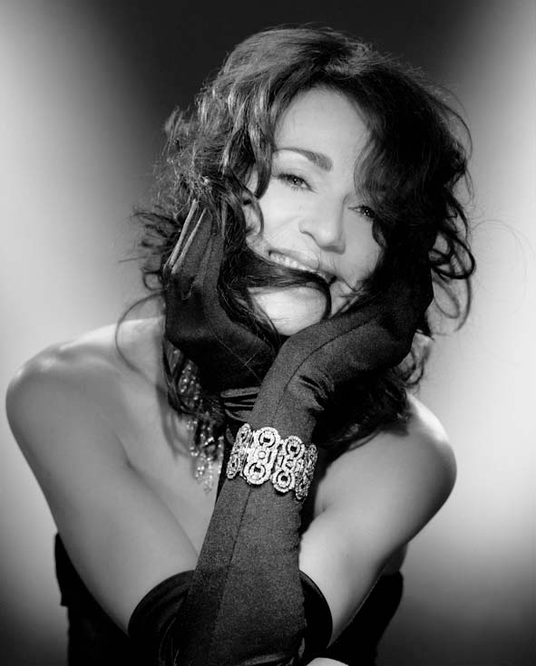 Maruschka Detmers photographed by Studio Harcourt Paris